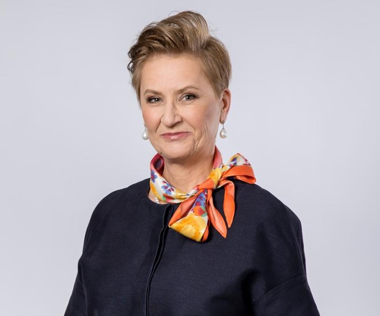 Beata Stoczyńska, Polish ambassador to Indonesia